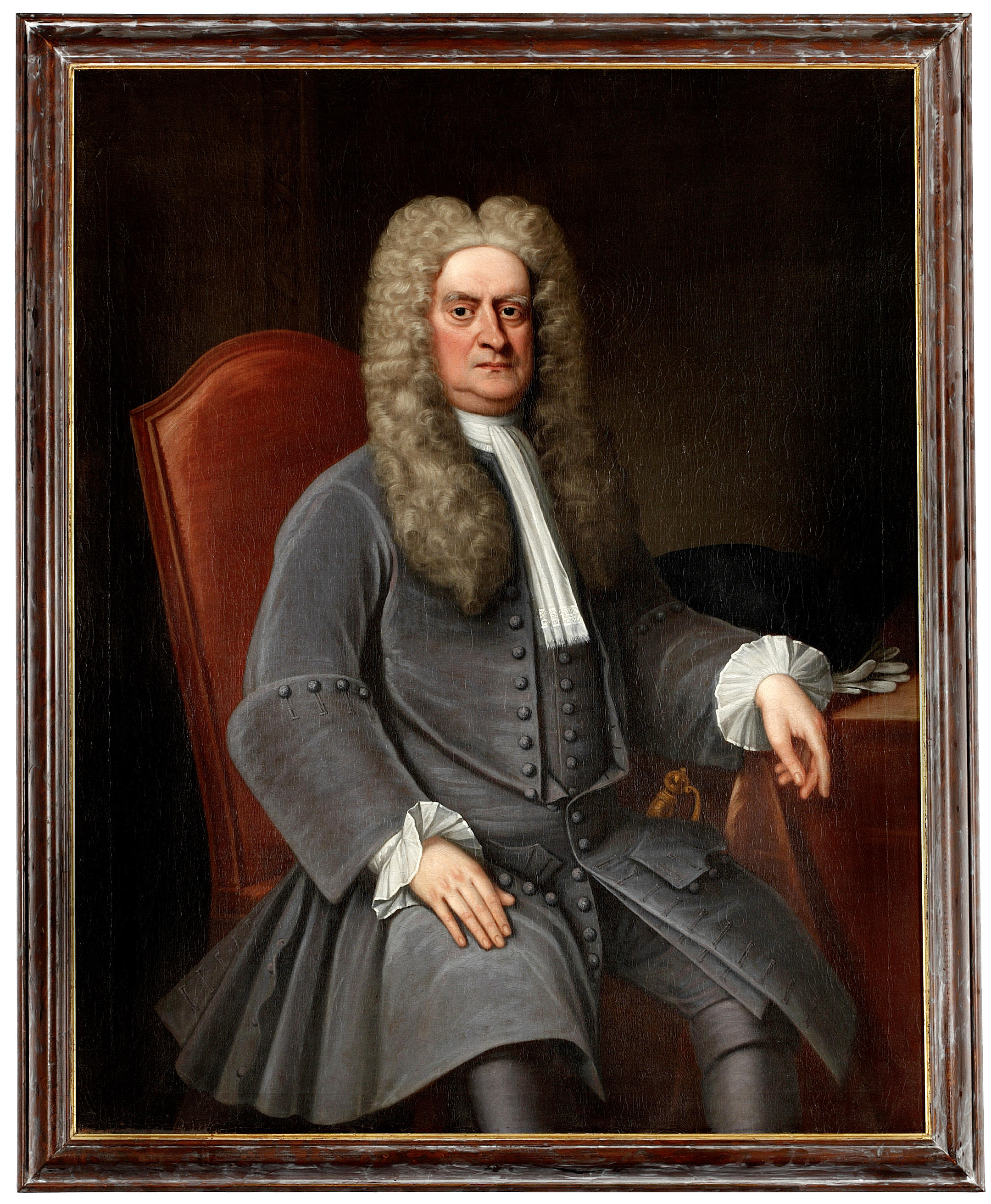 Portrait of Sir Isaac Newton, oil on canvas [M. Keynes, Iconography of Sir Isaac Newton, X], 1250 x 990mm., English School, [c.1715-1720]